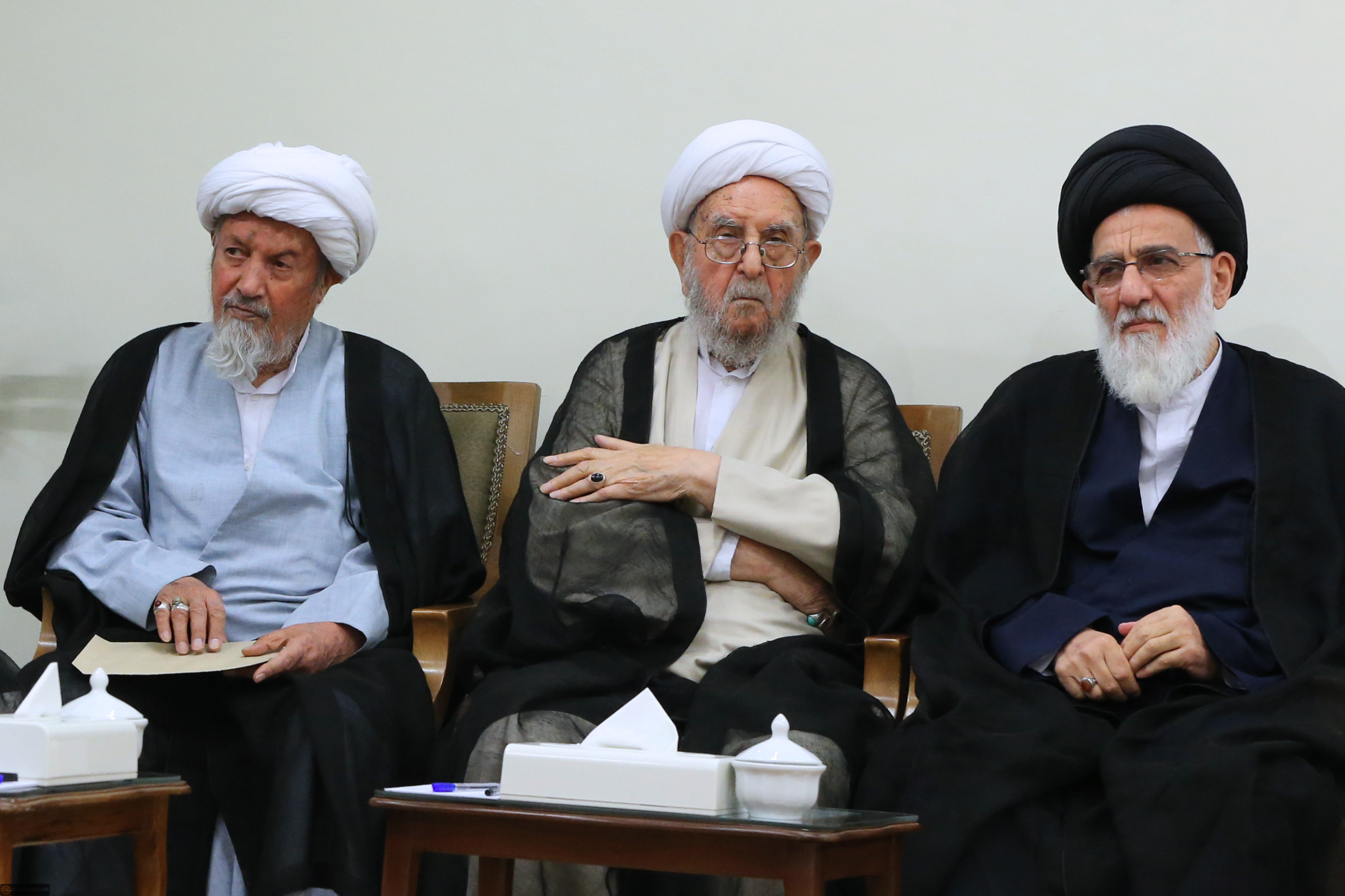 Members of the Assembly of Experts for Leadership meet with Ali Khamenei (13960630 1737704)